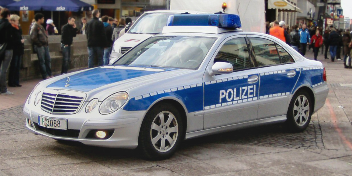 Picture of a German police car taken during this meeting.